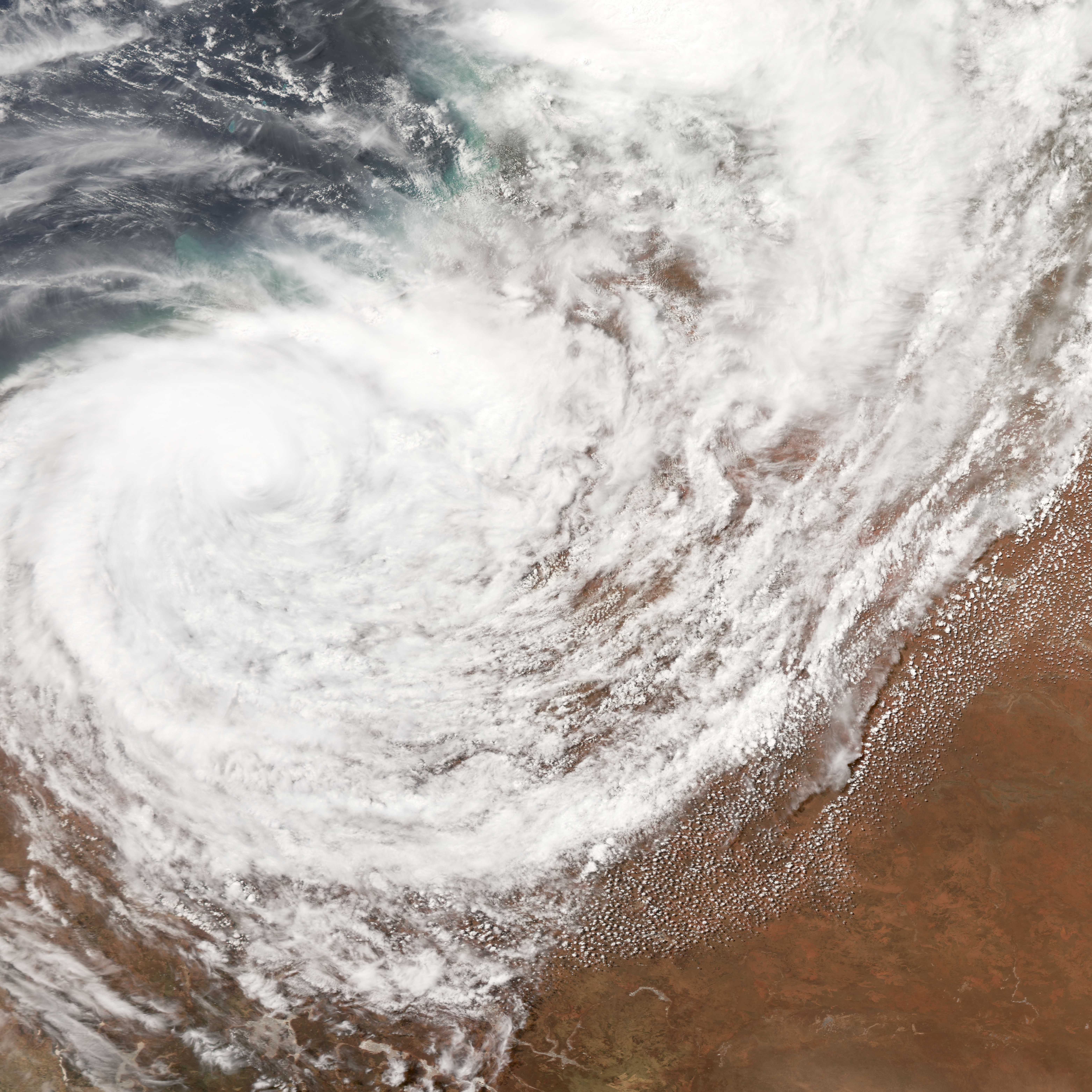 Tropical Cyclone George came ashore on the remote Pilbara coast of Western Australia on the evening of March 8, 2007, as a very powerful Category 4 storm, with wind speeds as high as 275 kilometers per hour (170 miles per hour). According to the online version of the Sydney Morning Herald, the storm was responsible for at least two deaths and many serious injuries as of March 10. This photo-like image of George was acquired by the Moderate Resolution Imaging Spectroradiometer (MODIS) on the Aqua satellite on March 9, 2007, at 1:25 p.m. local time (05:25 UTC). The storm was still a strong tropical cyclone with a circular shape and distinct eye at its center, despite the fact that the storm had been traveling over land for nearly a day when the image was captured. According to the University of Hawaii’s Tropical Storm Information Center, Cyclone George had sustained winds of 120 kilometers per hour (75 miles per hour) near the time this image was acquired. George was the worst storm to hit the area in 30 years, and the government declared the region a disaster area. Rescue and recovery efforts were expected to be complicated by the arrival of Cyclone Jacob. As a Category 2 storm, Jacob was smaller and weaker, and it was not expected to wreak the same kind of destruction as George.